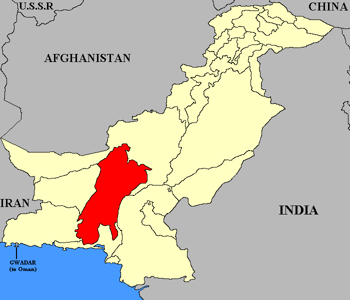 This map shows the relative position of the former State of Kalat in Pakistan until it was dissolved in 1955.